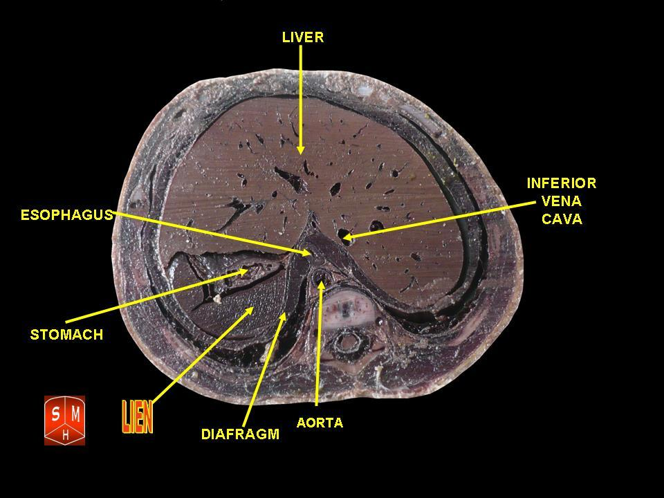 Anatomical preparations